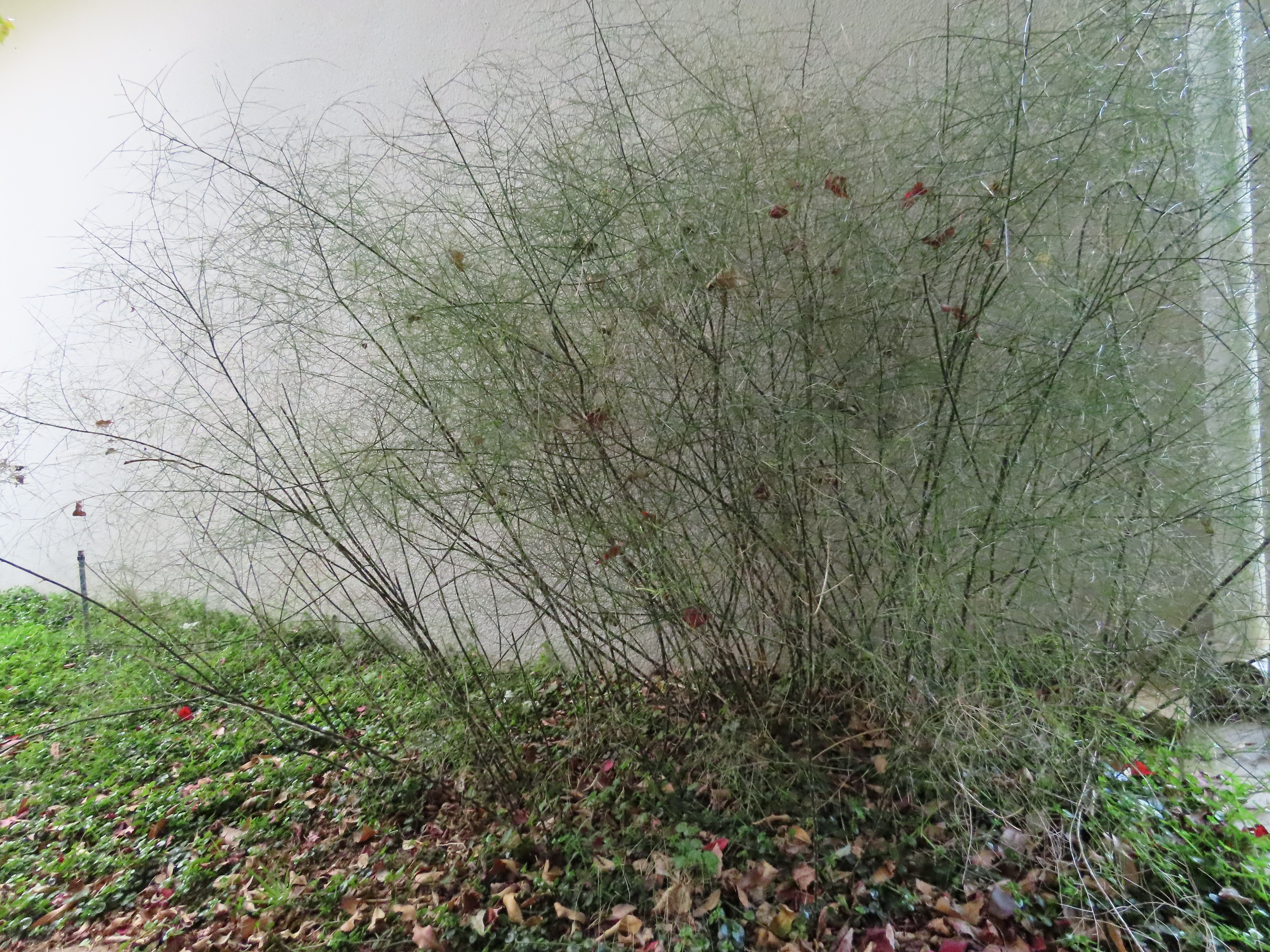 Asparagus virgatus growing next to a wall in a garden. The brown leaves in the branches fell from trees above, and are not part of this plant. The name "virgatus" means wand-like or "twiggy" and refers to the straight shoots, unusual in an Asparagus species. This specimen is in a garden, and its origin is unknown.